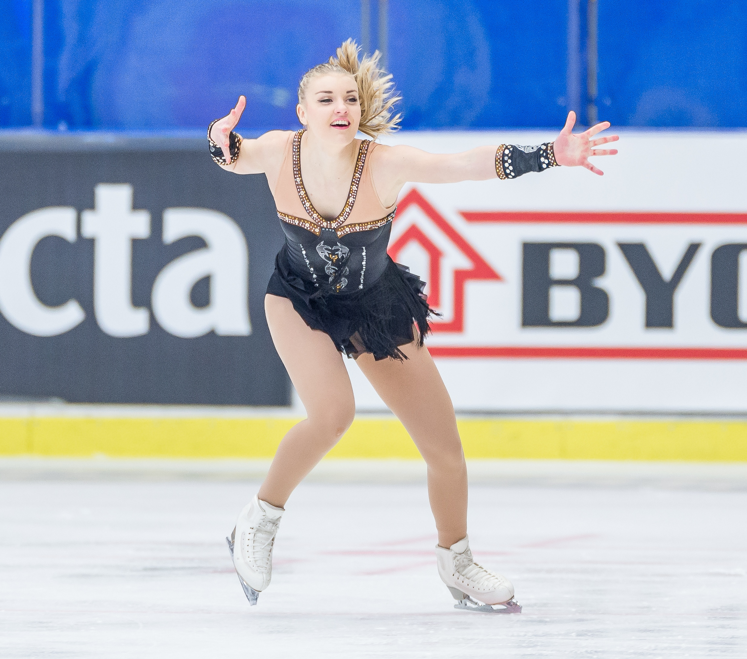 Swedish figure skater Joshi Helgesson performing her free skating at the 2013 Swedish figure skating champrionships at VIDA Arena in Växjö